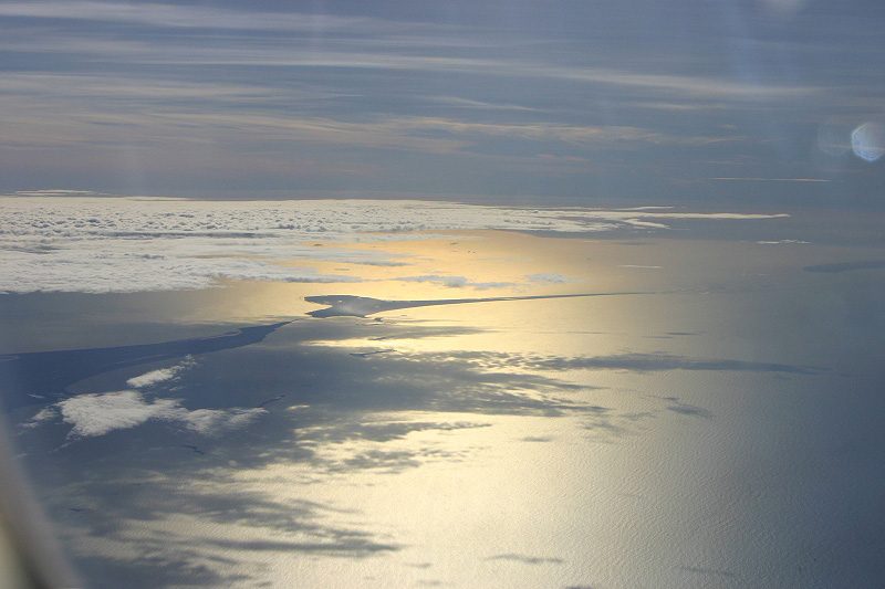 Rama's (Adam's) Bridge as seen from an airplane. Uploaded by photographer, taken 7/19/04.